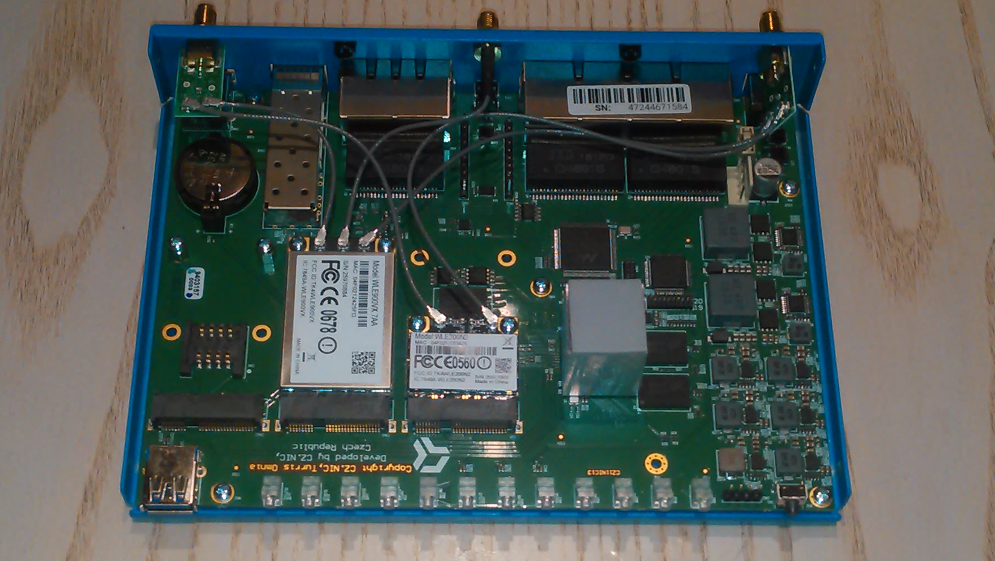 The Turris Omnia router with its cover removed.